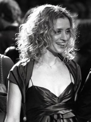 Anne-Marie Duff and James McAvoy at the Orange British Academy Film Awards in London's Royal Opera House